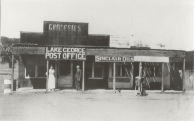 Henry Rocket and wife in front of their store and the post office in Lake George, Colorado, early 1900s